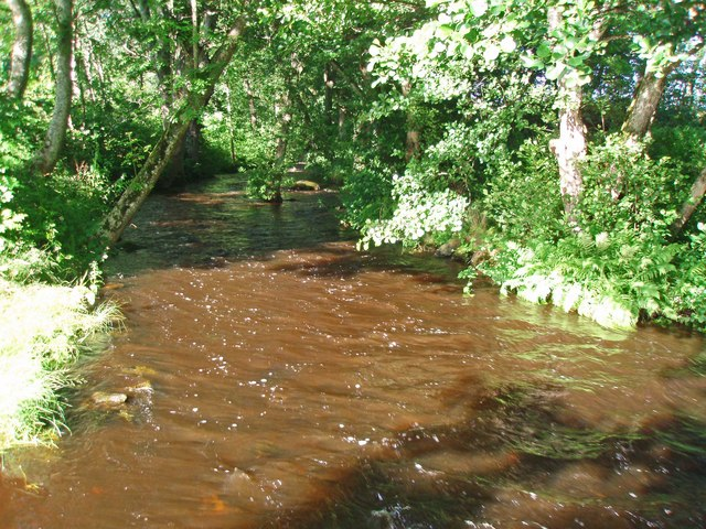 Burn at Milton of Crathes, Deeside, Aberdeenshire